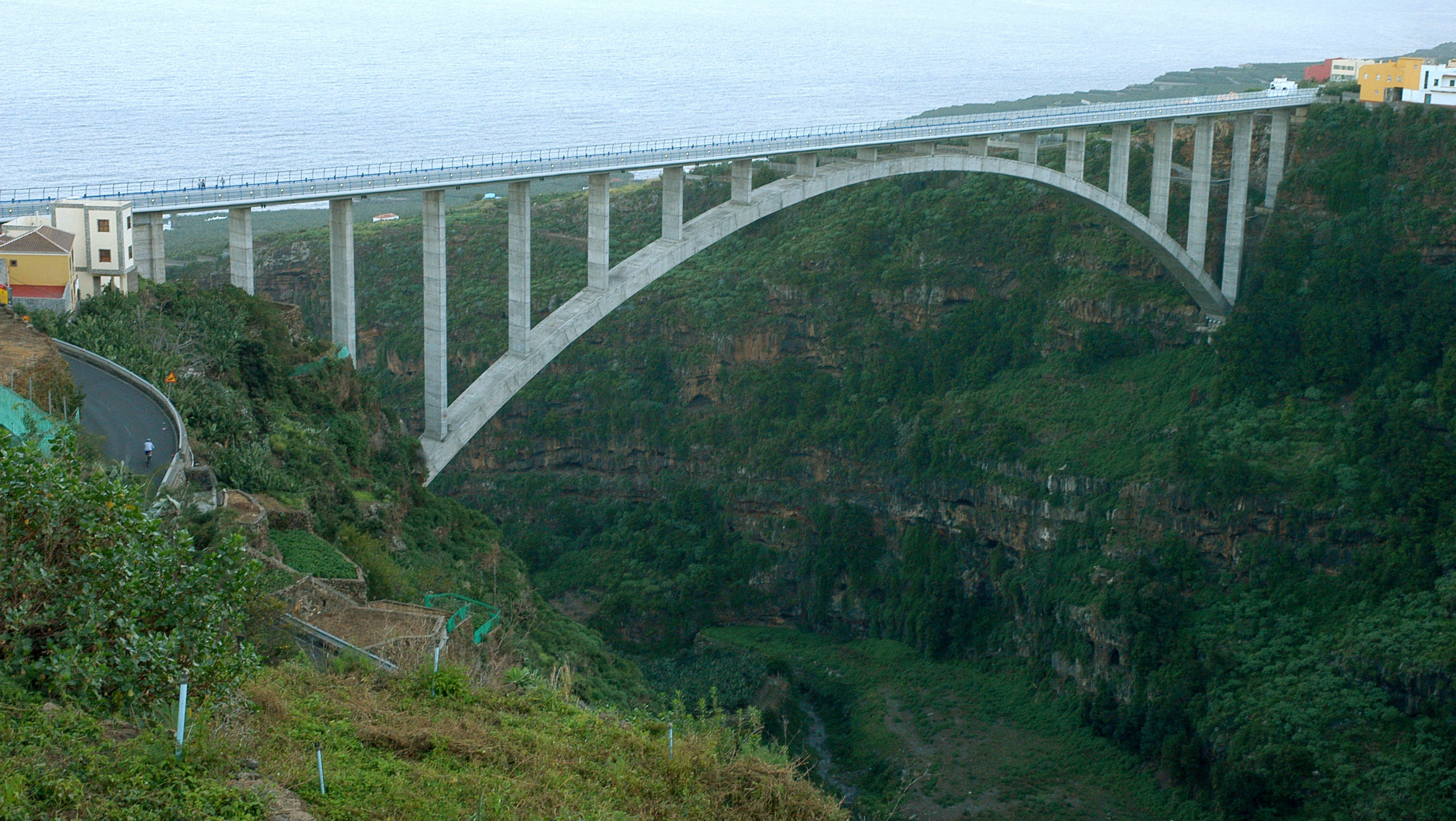 Los Tilos Arch (bridge) near Barranco del Agua (San Andrés y Sauces)